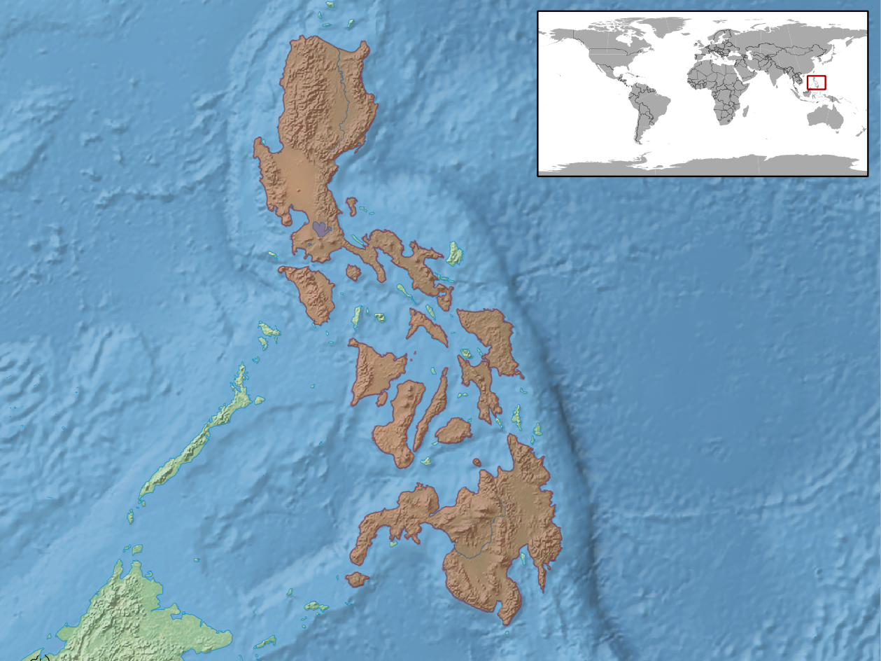 geographic distribution of Sphenomorphus jagori (IUCN) syn Pinoyscincus jagori ([1])